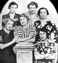 photograph of Austrian Women's team